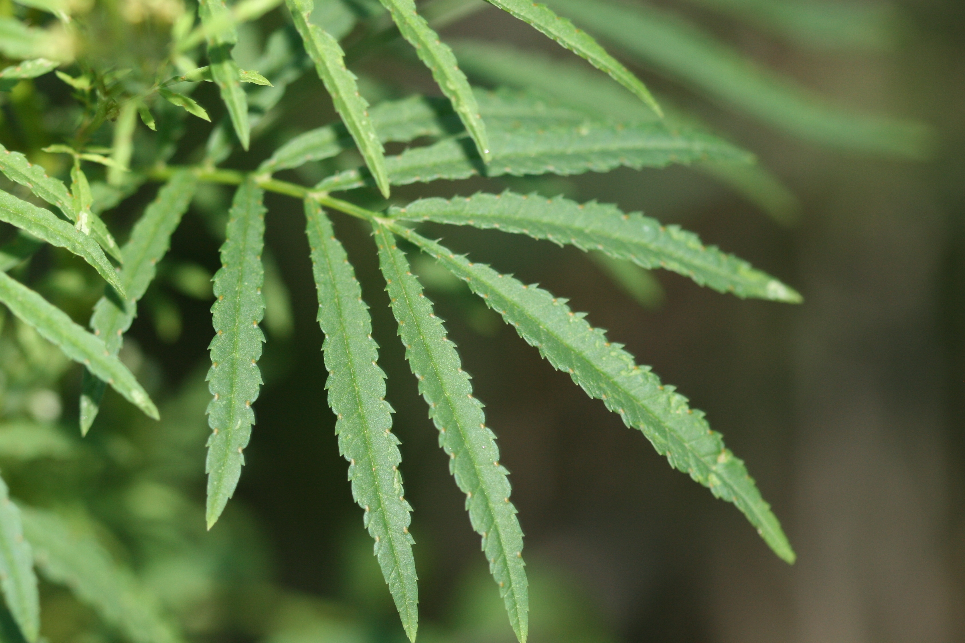 Stinking Roger (Tagetes minuta) an introduced weed near Toowoomba, Queensland, Australia. Photographed on 1 May 2009.